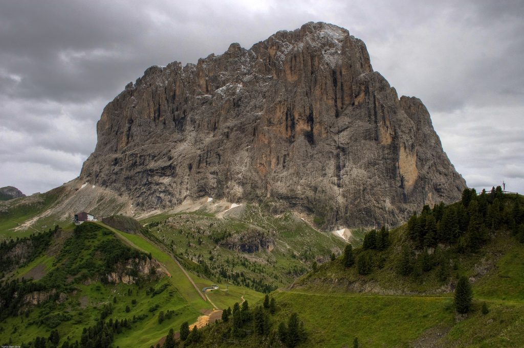 View of a mountain in the Dolomites from the Sëlva comune (municipality) in Italy.